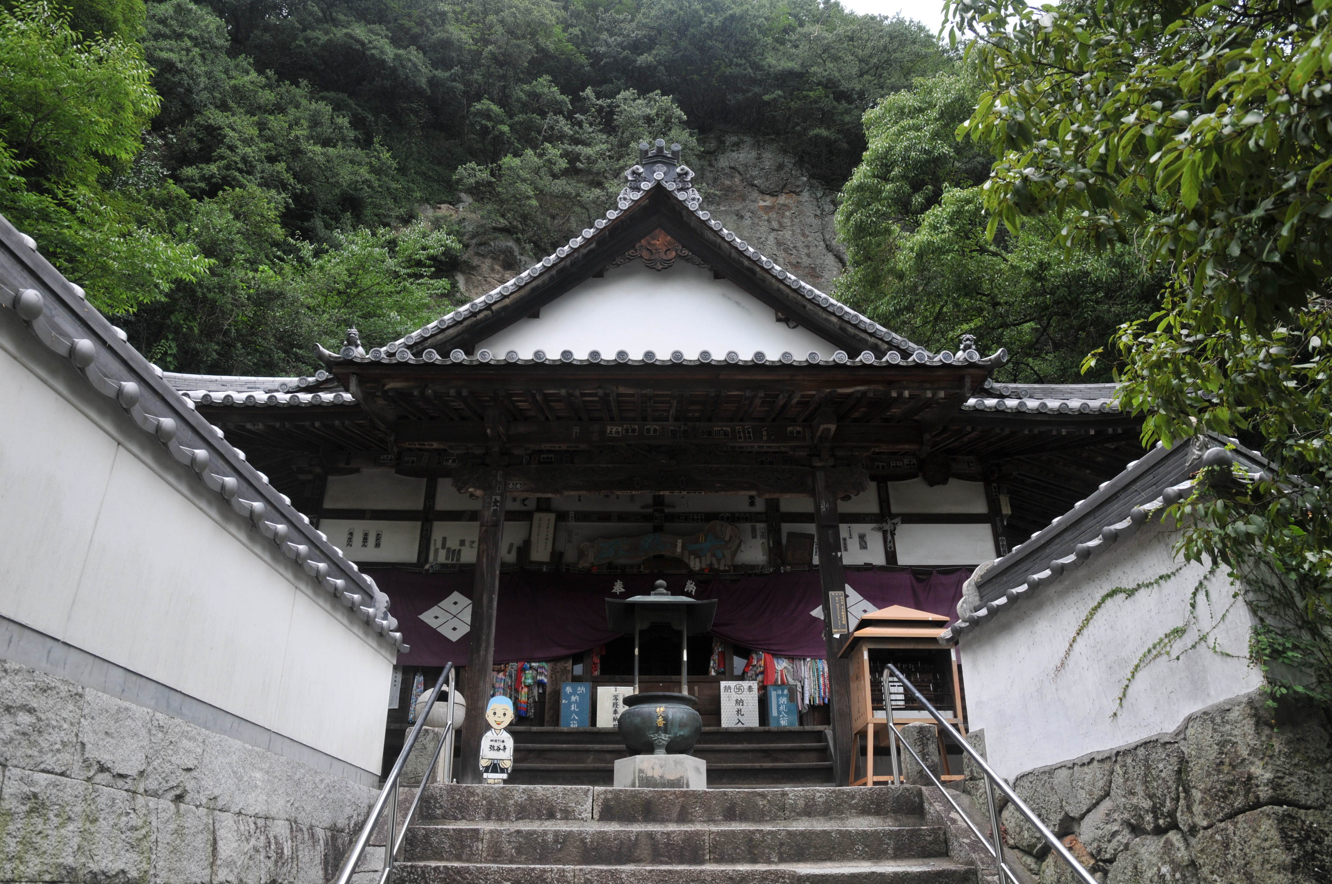 Main temple, Iyadani-ji